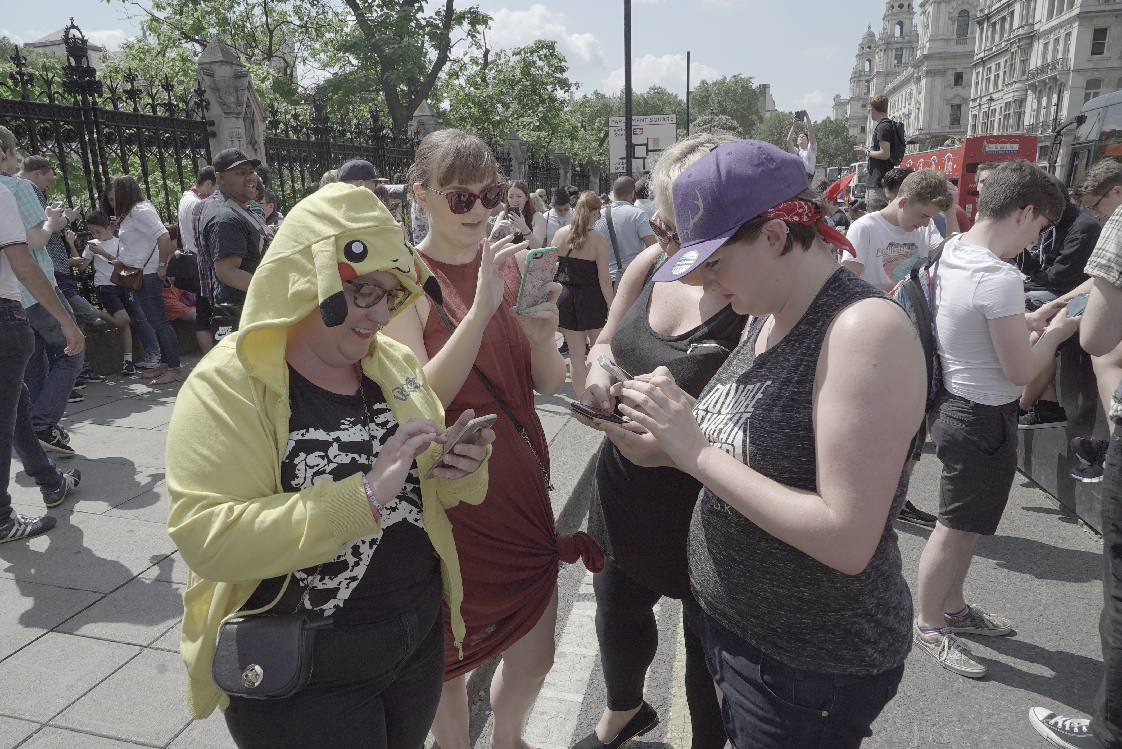 Participants in the Pokémon GO public event in London